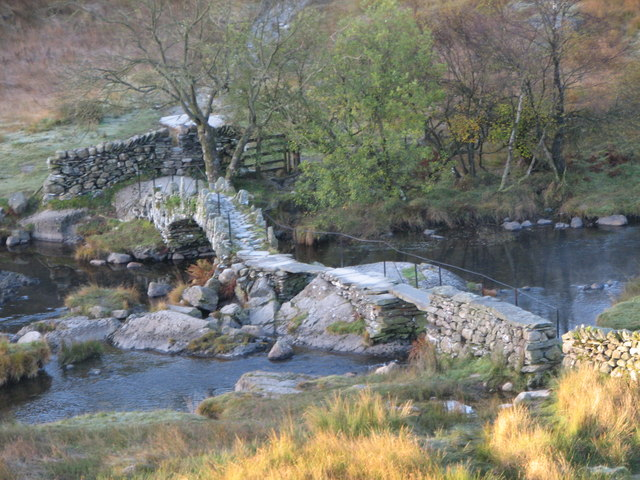 Slater's Bridge over the River Brathay between Little Langdale and Coniston, Cumbria